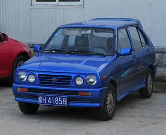 Yunque GHK 7071 'W.O.W.' or GHK 7060A 'Free Wing' (based on Subaru Rex 2nd generation)